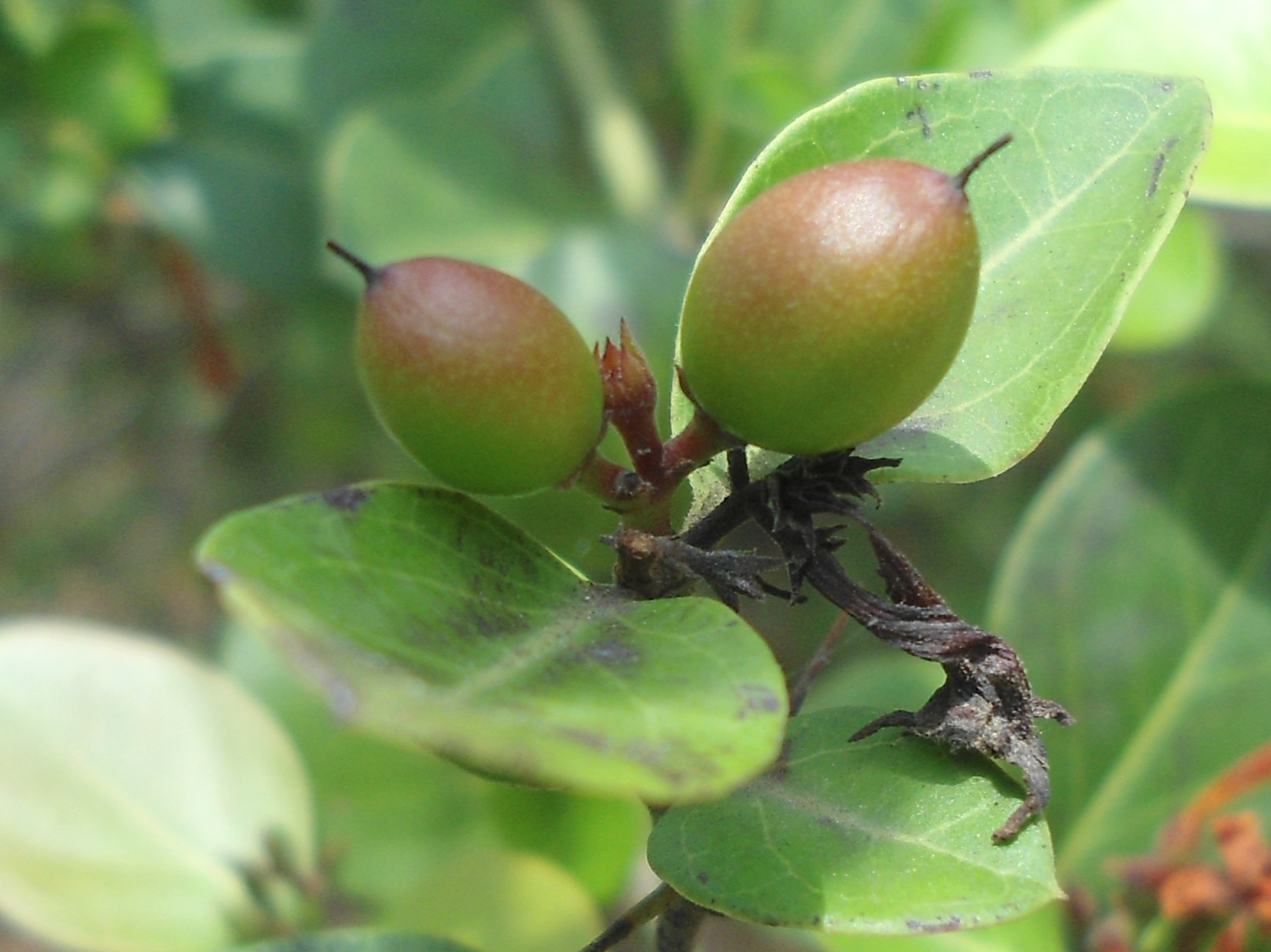 Vaaka fruit (Carissa carandas) at Kambalakonda Wildlife Sanctuary in Visakhapatnam